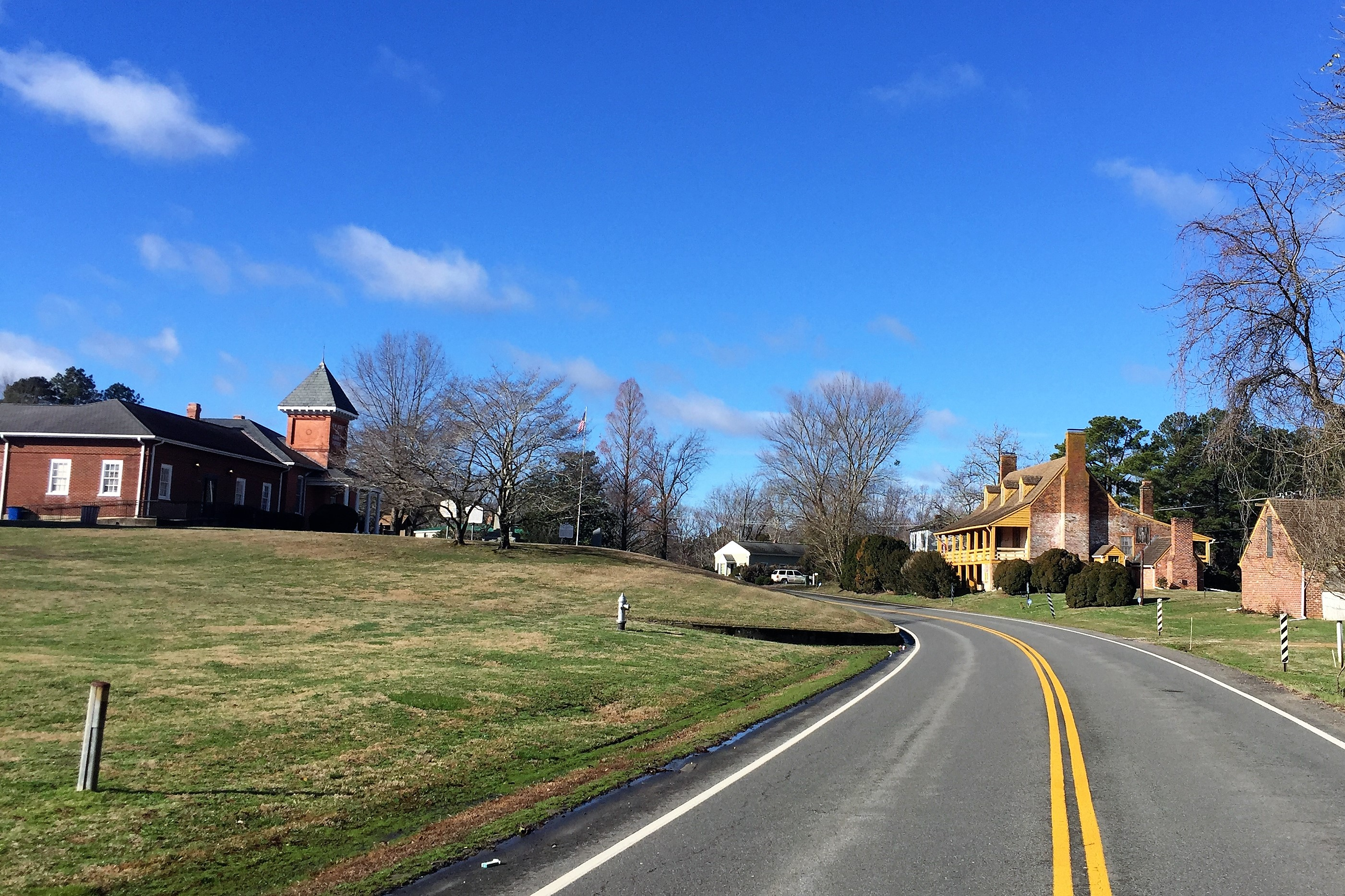 A view of New Kent, Virginia, from New Kent Highway